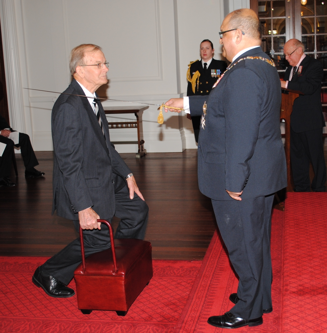 Investiture of Sir John Graham as KNZM, for services to education and sport, by the governor-general, Sir Anand Sayanand, at Government House, Wellington, on 4 August 2011.